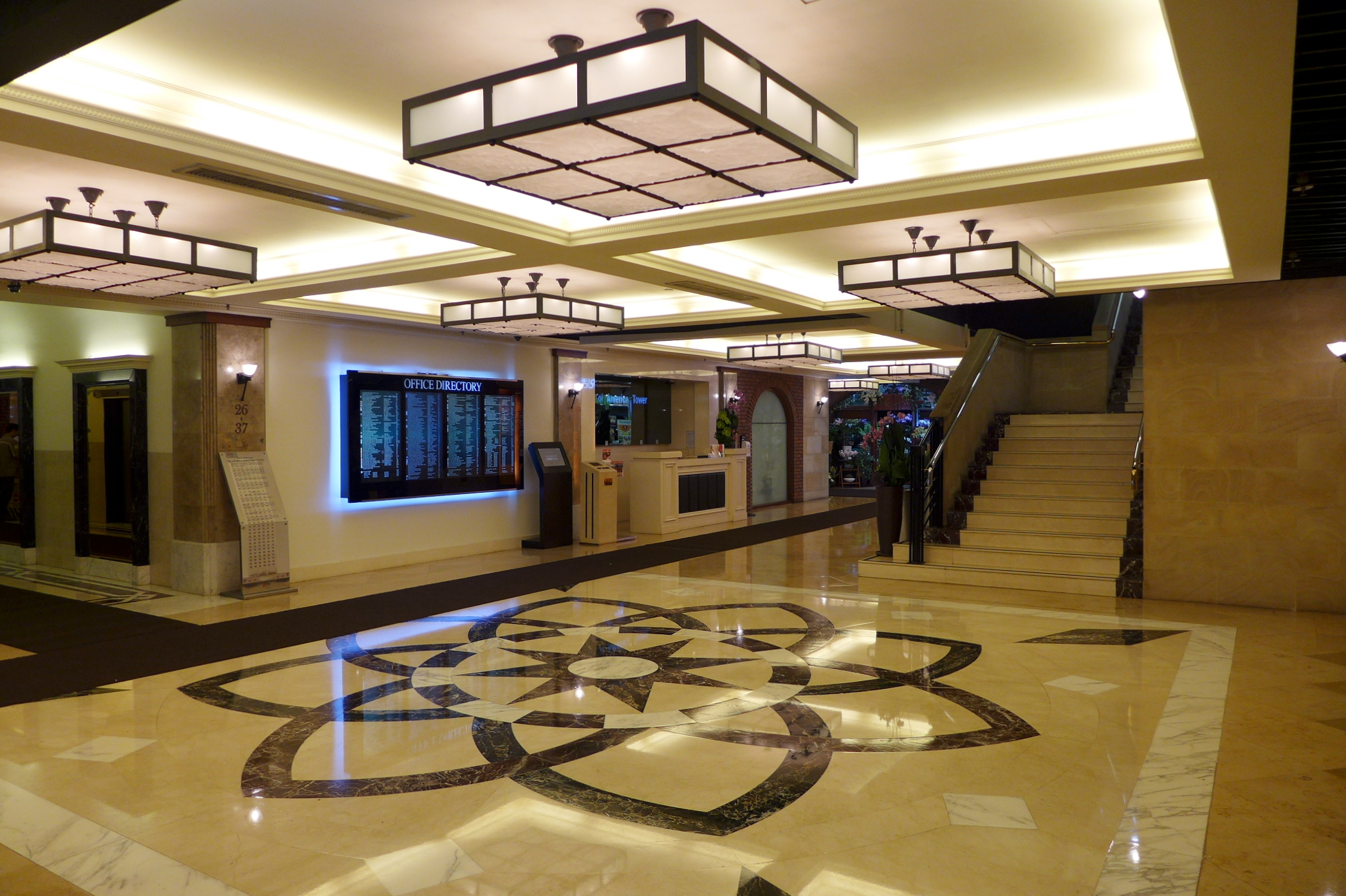 Bank of America Tower Lobby